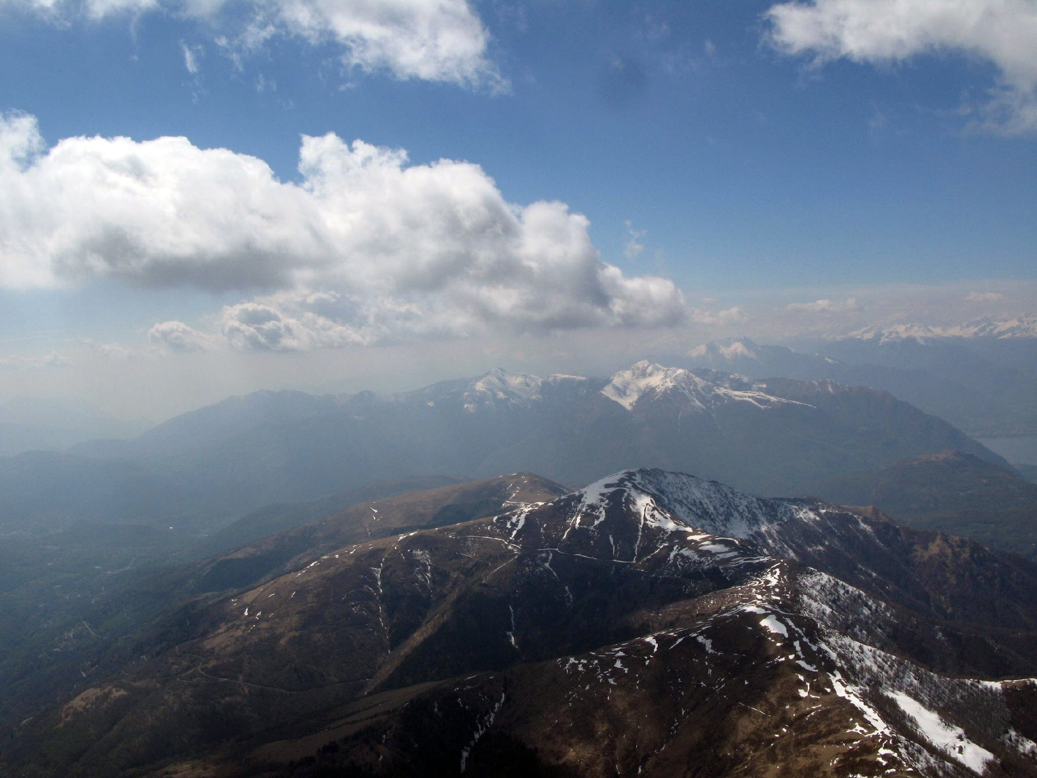 Isone Valley